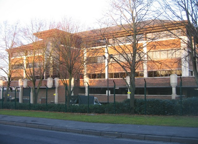 Office with car park Priestley Road.